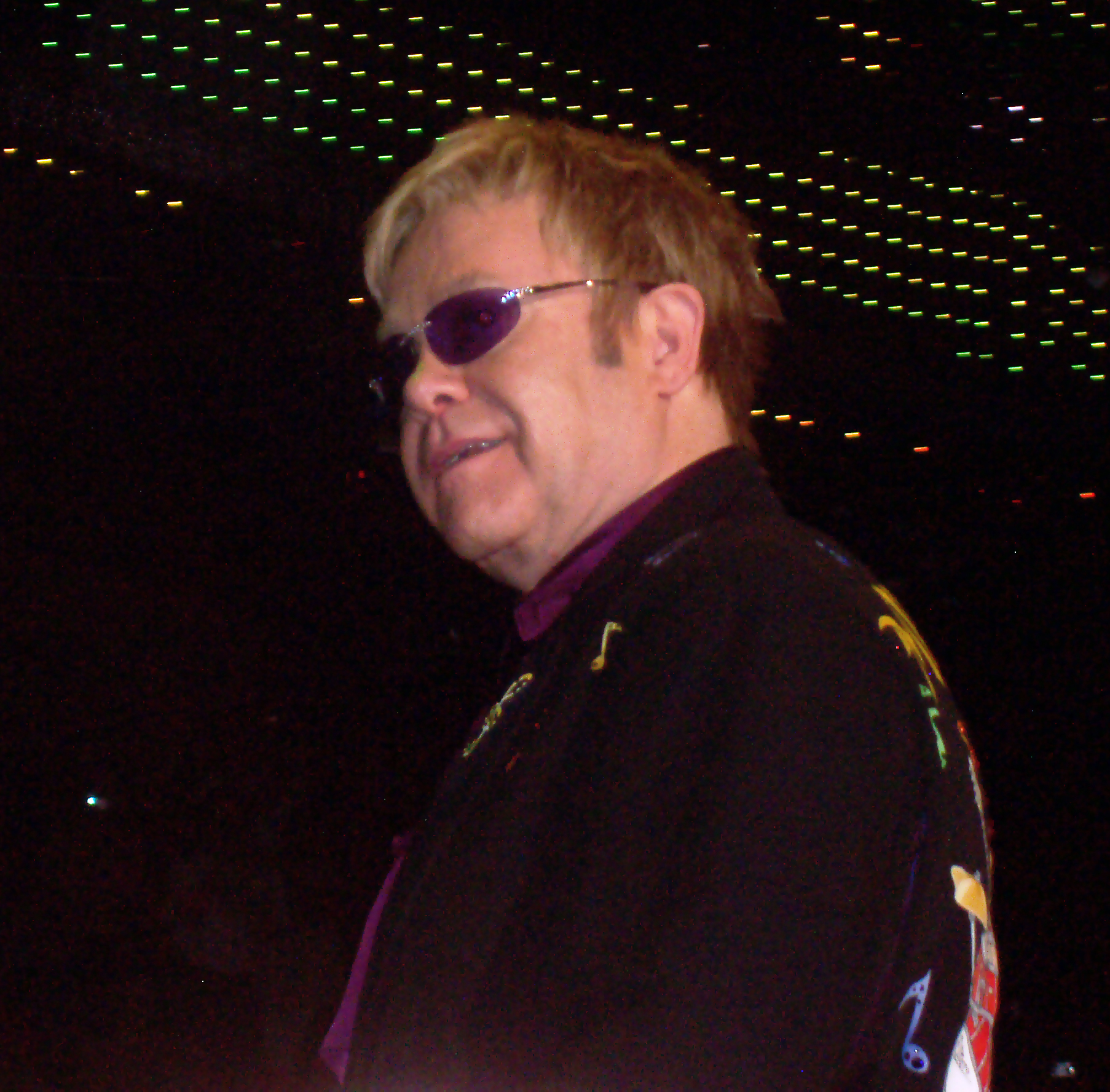 Sir Elton John on stage at the Sullivan Arena in Anchorage, Alaska May 30th 2008.